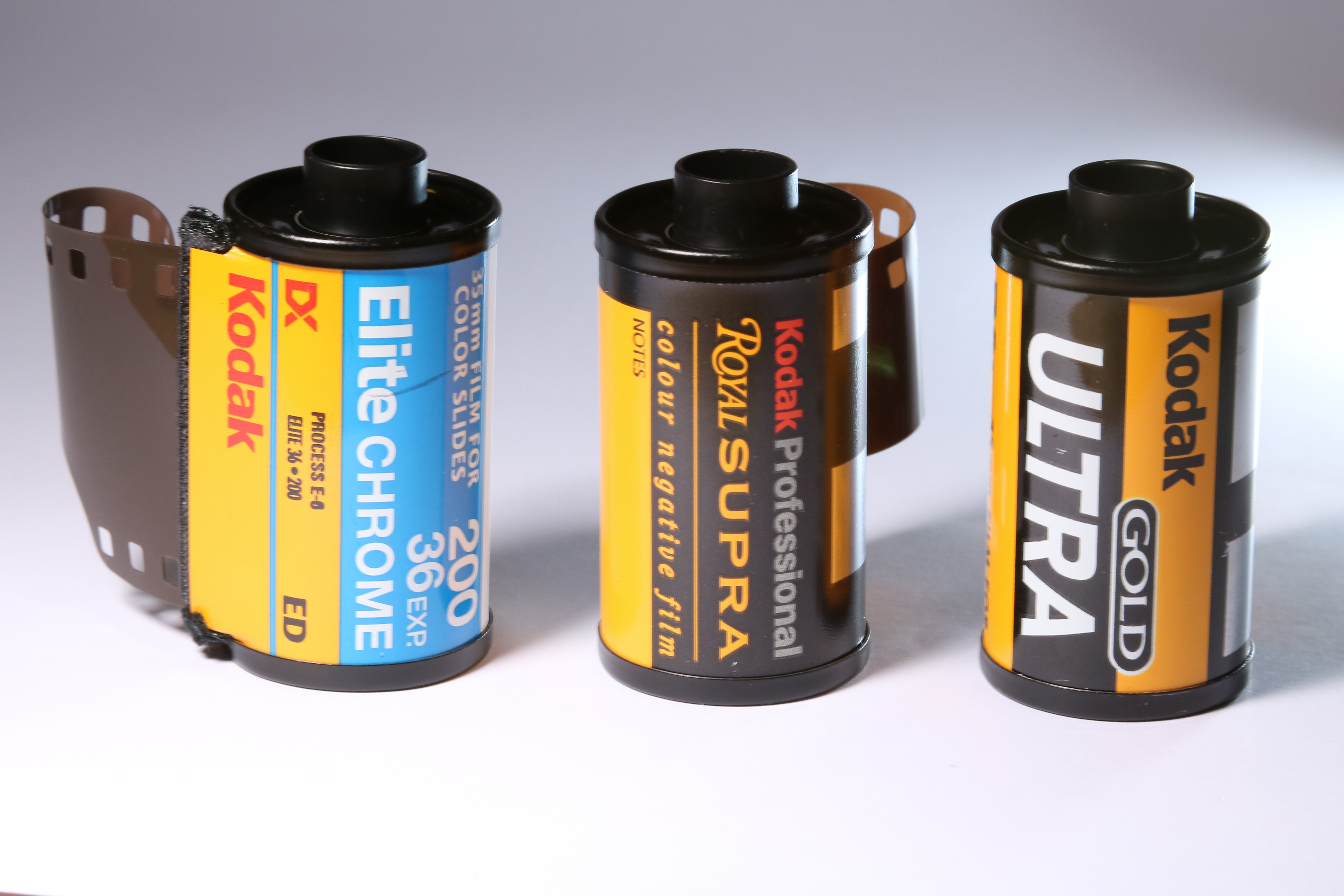 Kodak 35 mm films: Elite Chrome 200, Royal Supra Professional 200, Gold Ultra 400.